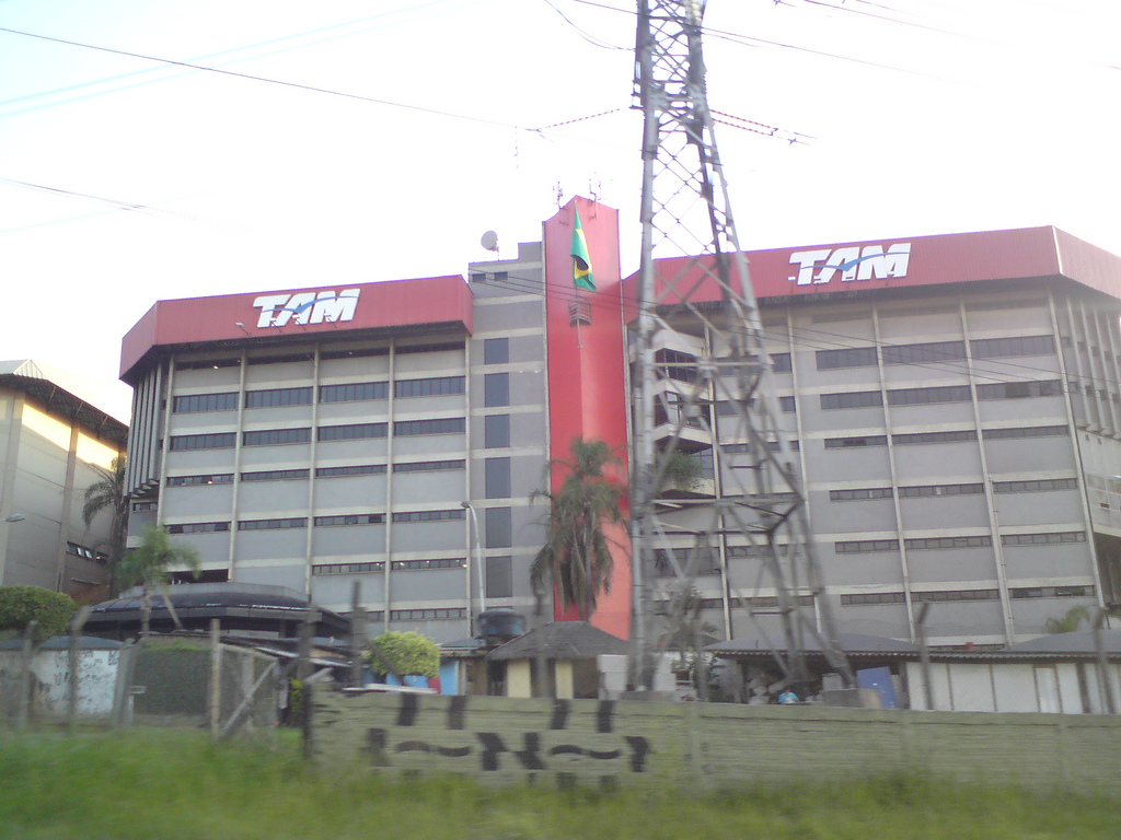 The headquarters of TAM Airlines - Jardim Aeroporto, Campo Belo, São Paulo City